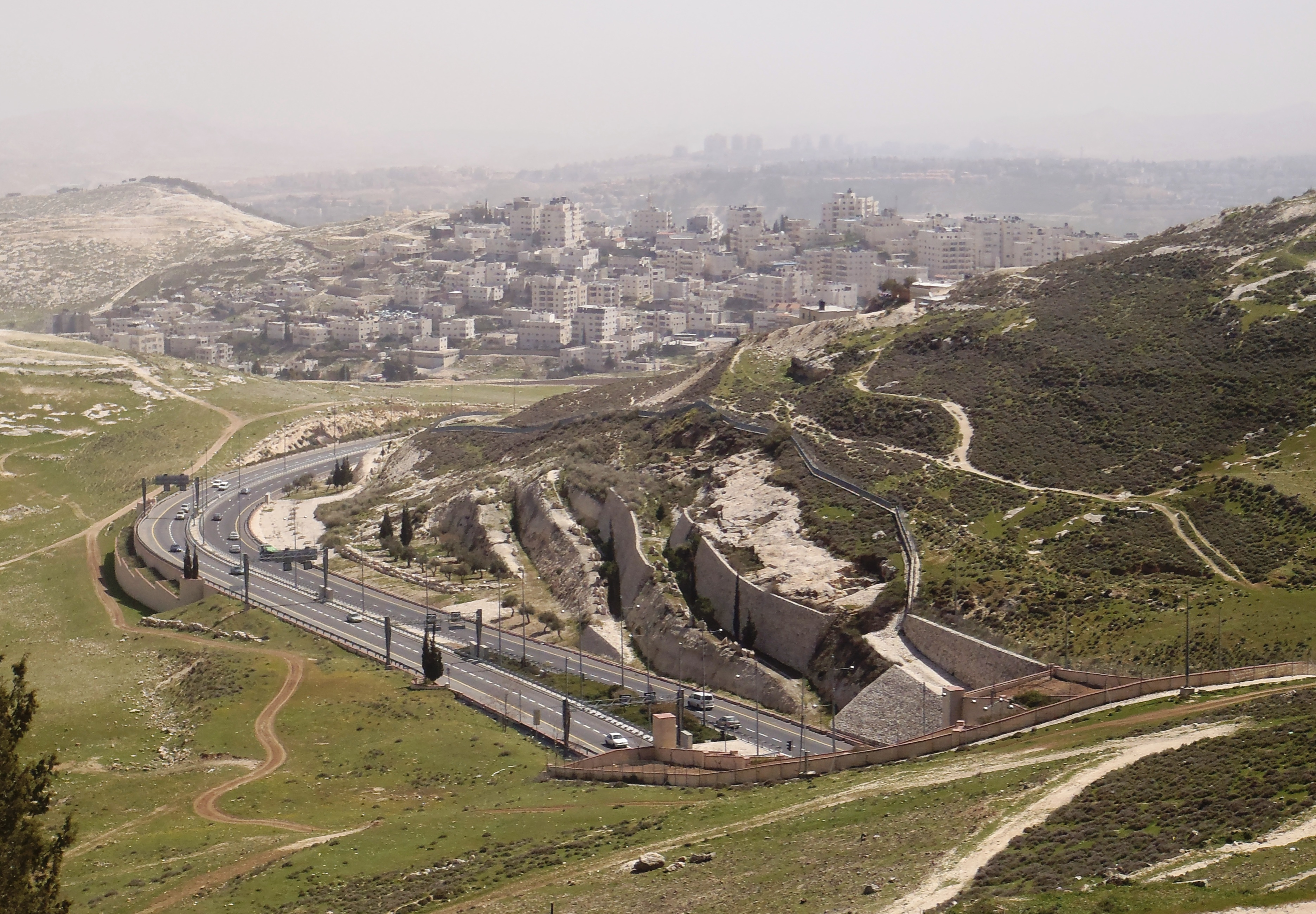 Jerusalem, Israel